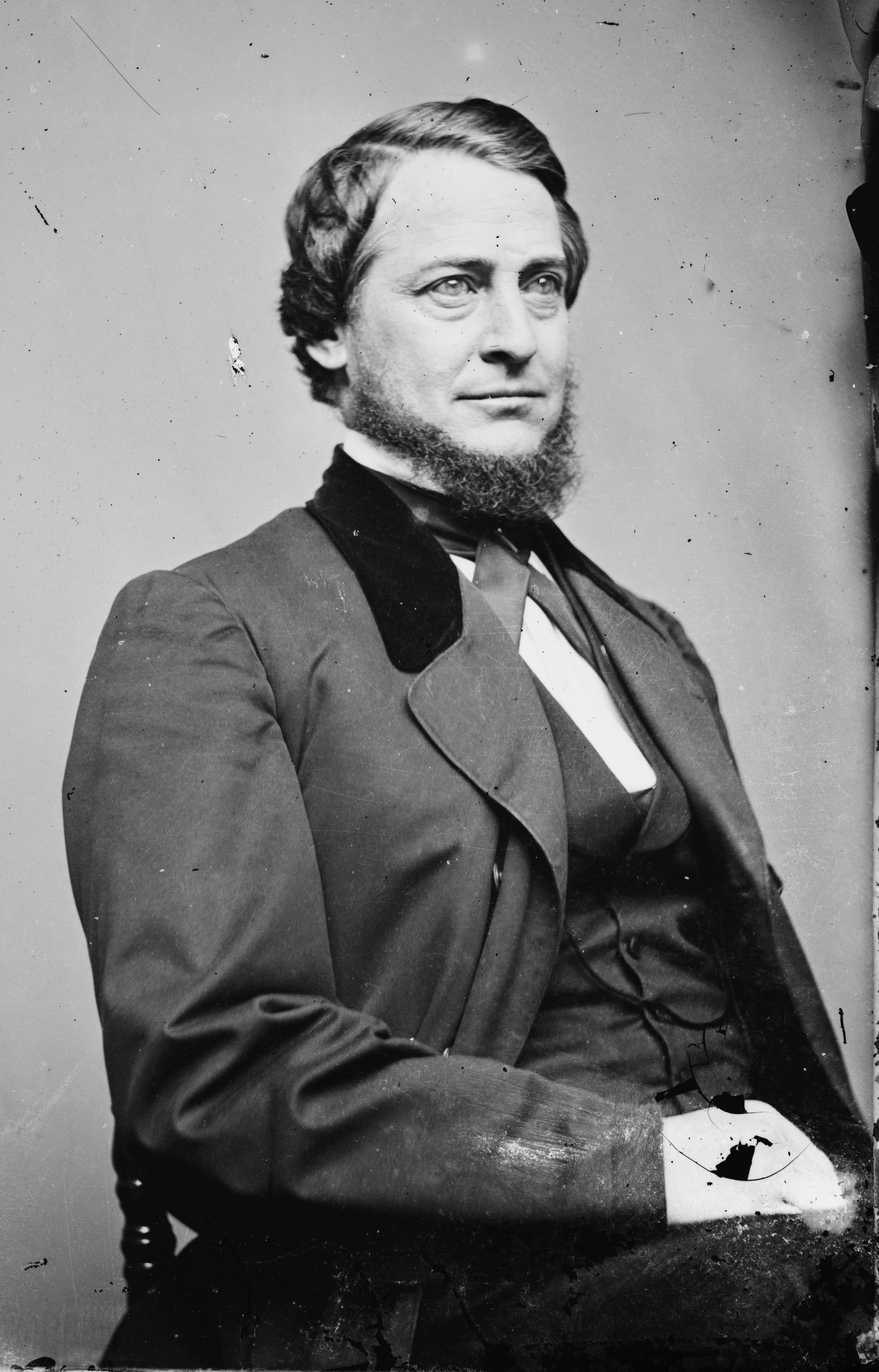 Clement Vallandigham. Library of Congress description: "Hon. Clement Laird Vallandigham [?] of Ohio"